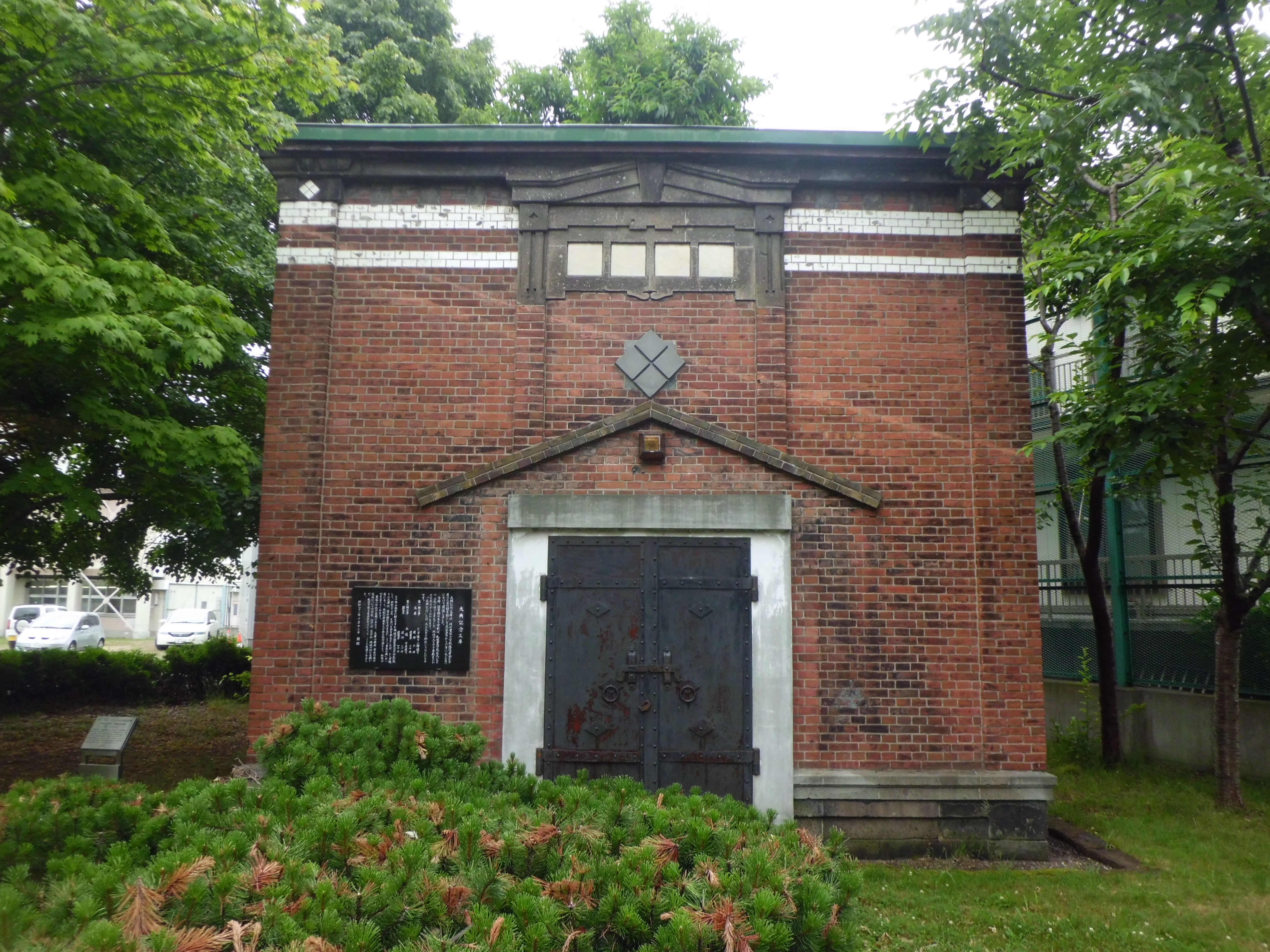 Enthronement Memorial Library of Hosui